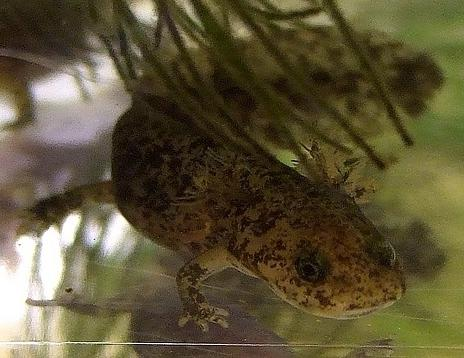 Species Hynobius kimurae (Dunn, 1923) Cropped from Image:Hynobius kimurae.jpg. Original description and license: Location: Chuo-ku, Kobe, Japan Other photos: NCBI Taxonomy ID:252291 Copyright: OpenCage